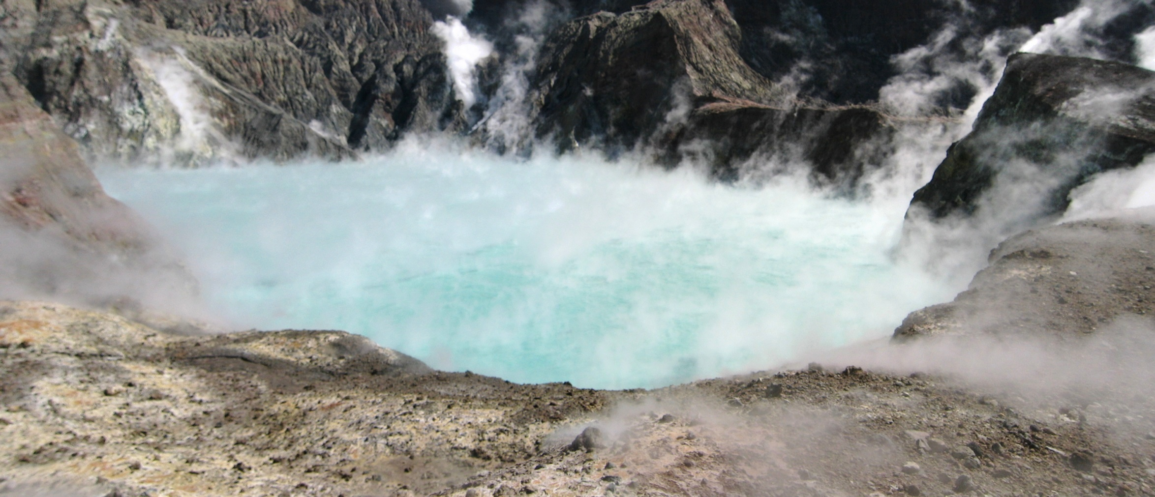 Whakaari/White Island's crater lake, in March 2004.